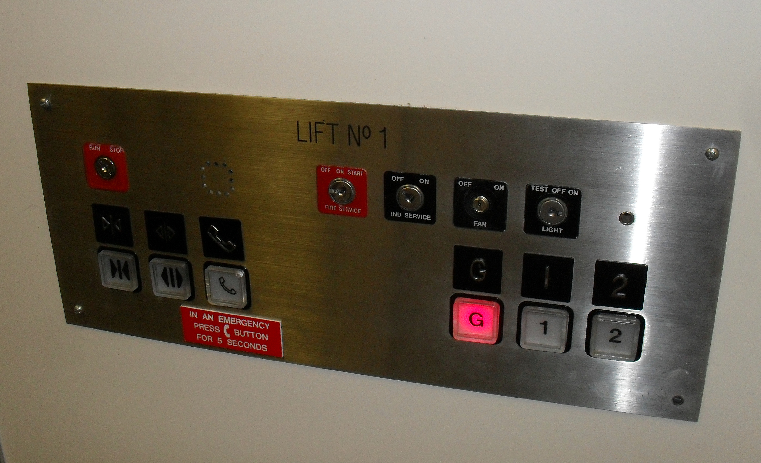 An internal lift control panel.